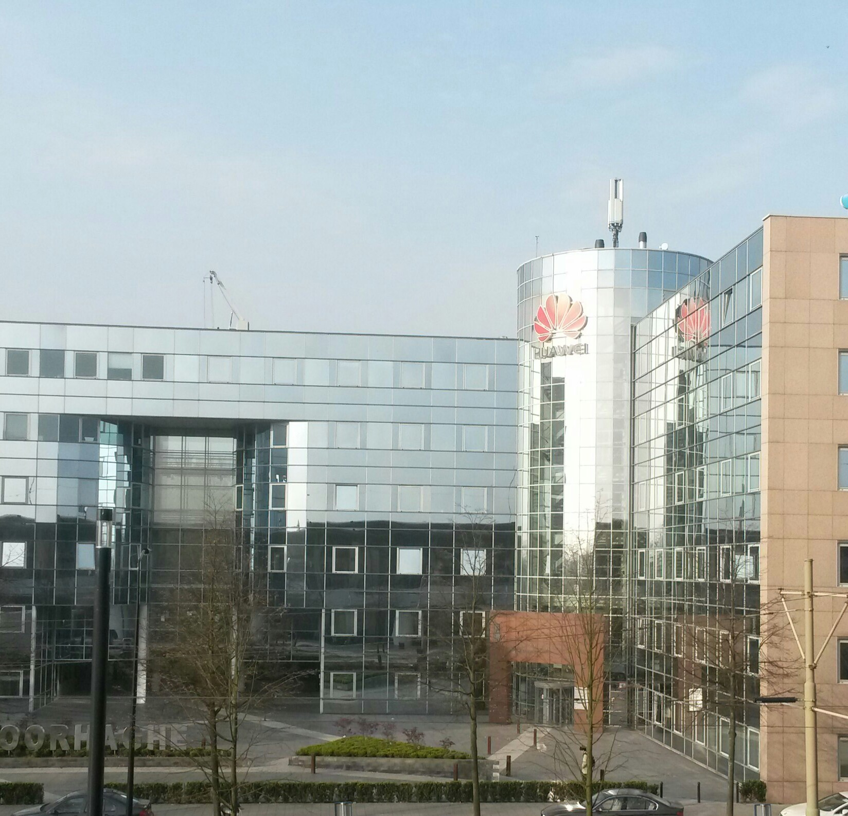 Huawei office in Voorburg